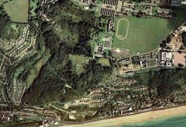 View of Shorncliffe Today